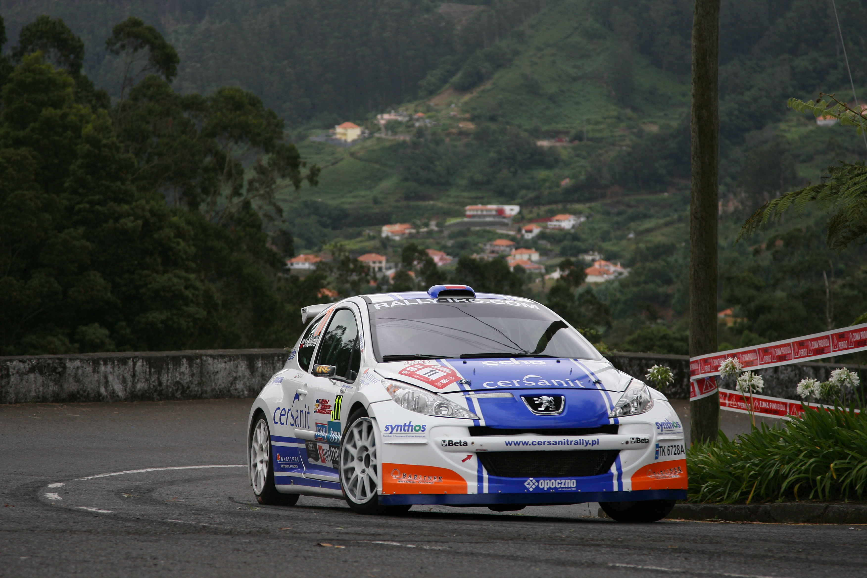 Cersanit Rally Team, Michal Solowow, Maciej Baran